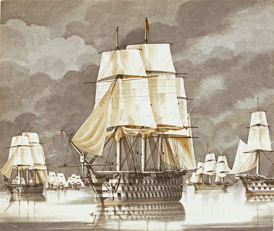 H.M. Ship Princess Charlotte off Mytelene Friday 21st Septr 1838 - at 5 PM (PAF6139). HMS Princess Charlotte was a 104-gun First rate ship of the line of the Royal Navy, launched on 14 September 1825 at Portsmouth.